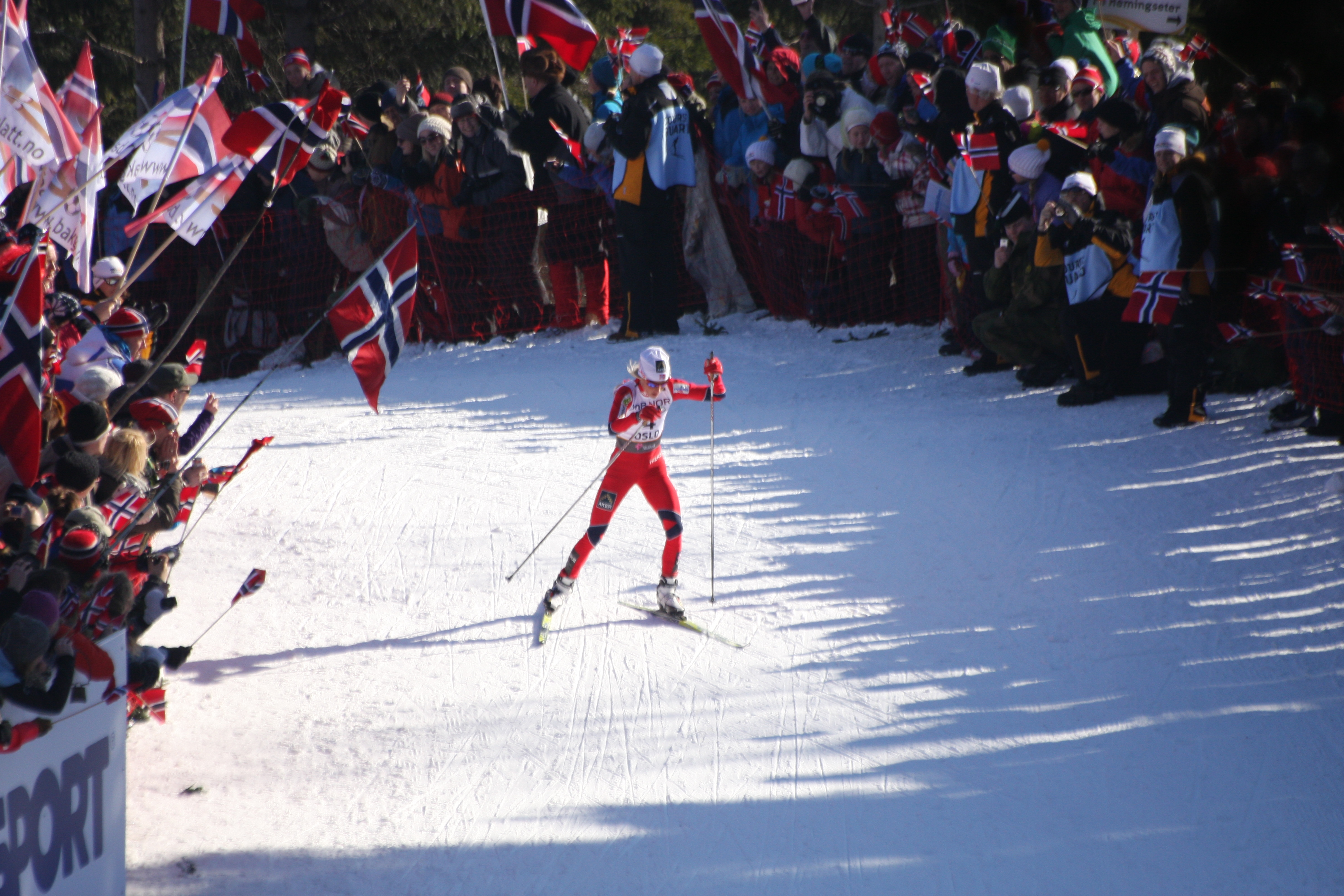 Therese Johaug, Norway, leads women's 30 km at the 17 km turn in World Ski Championship 2011, Oslo